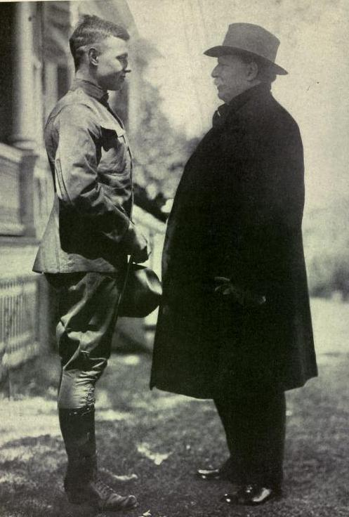 Charles Phelps Taft II, left, leaving for the Great War with his father, former president William Howard Taft